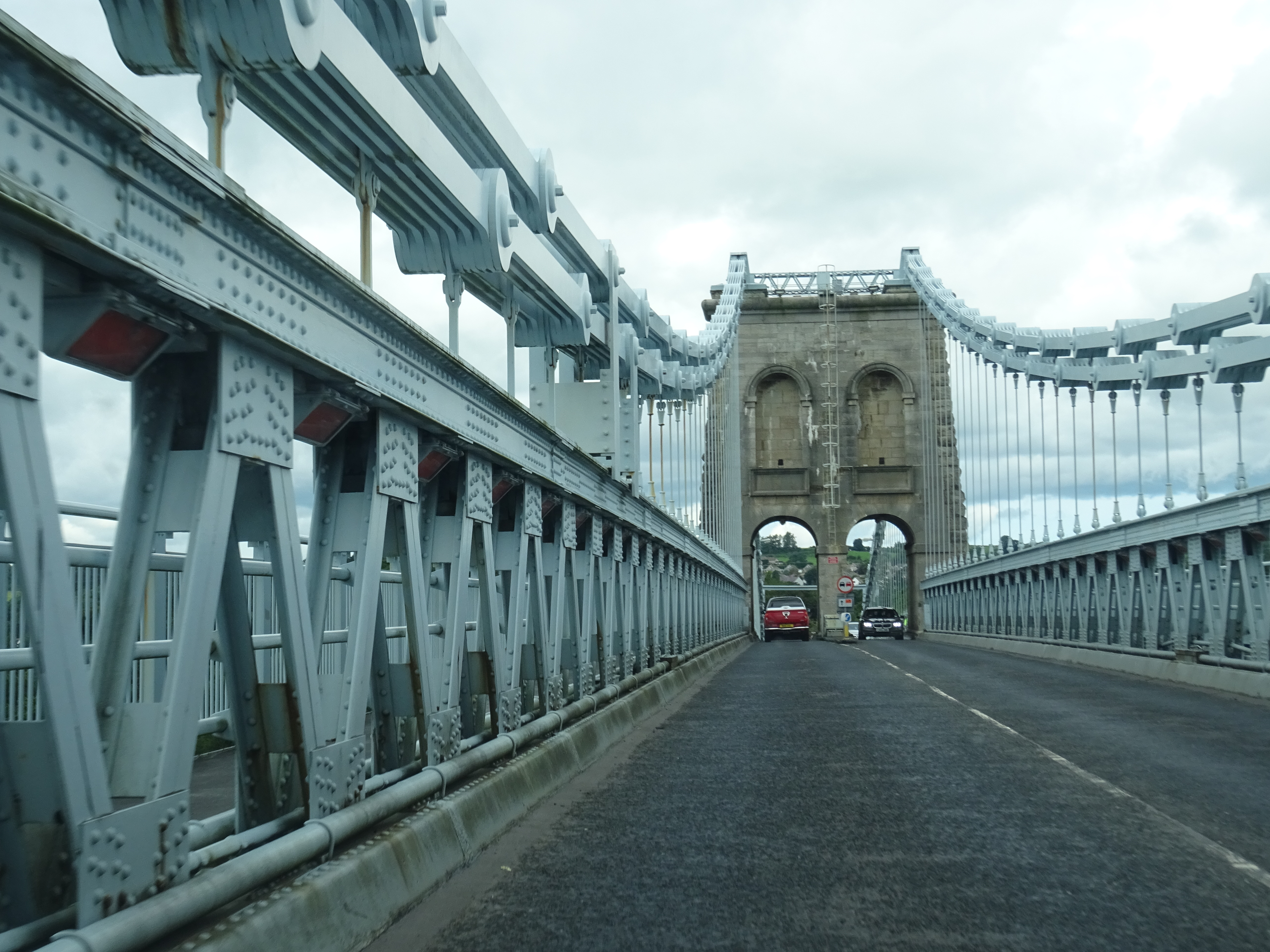 Menai Suspension Bridge Wikidata has entry Q581526 with data related to this item.